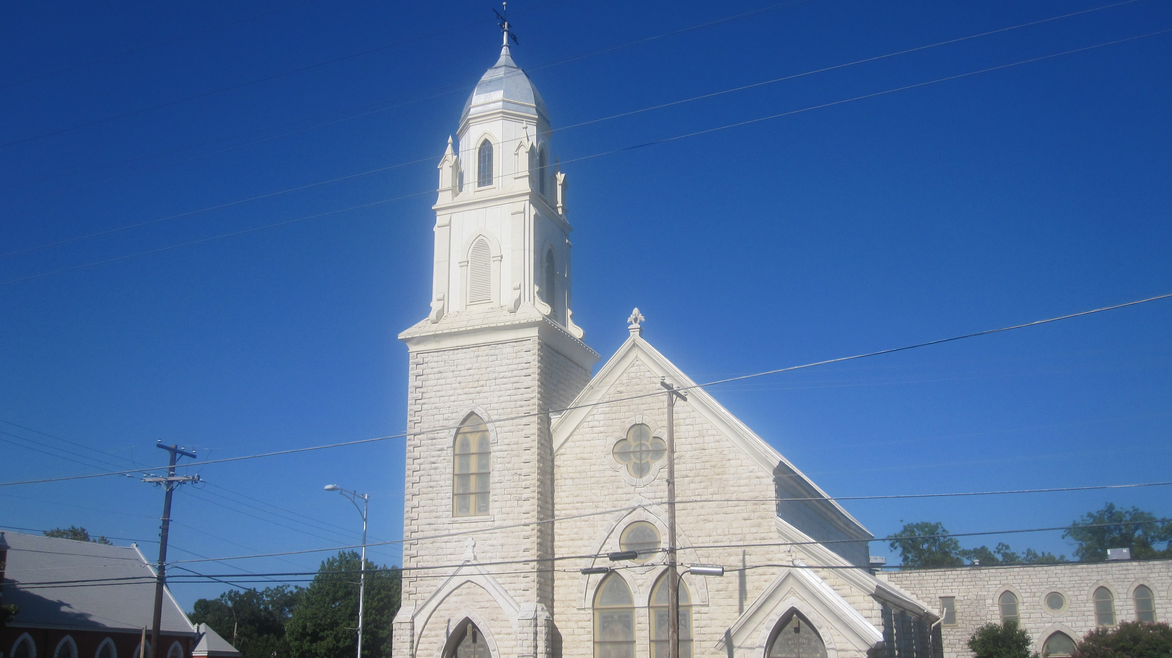 I took photo with Canon camera in Weatherford, TX.